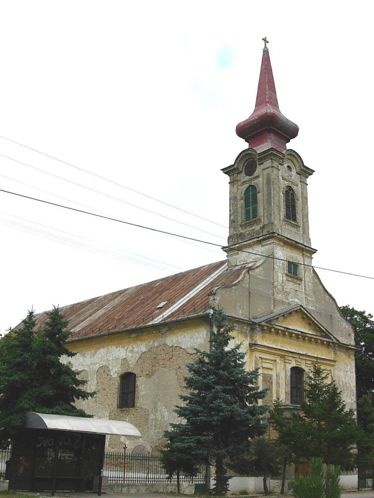 Saint John of Nepomuk Roman Catholic Church in Ratkovo, Odžaci, Vojvodina, Serbia.